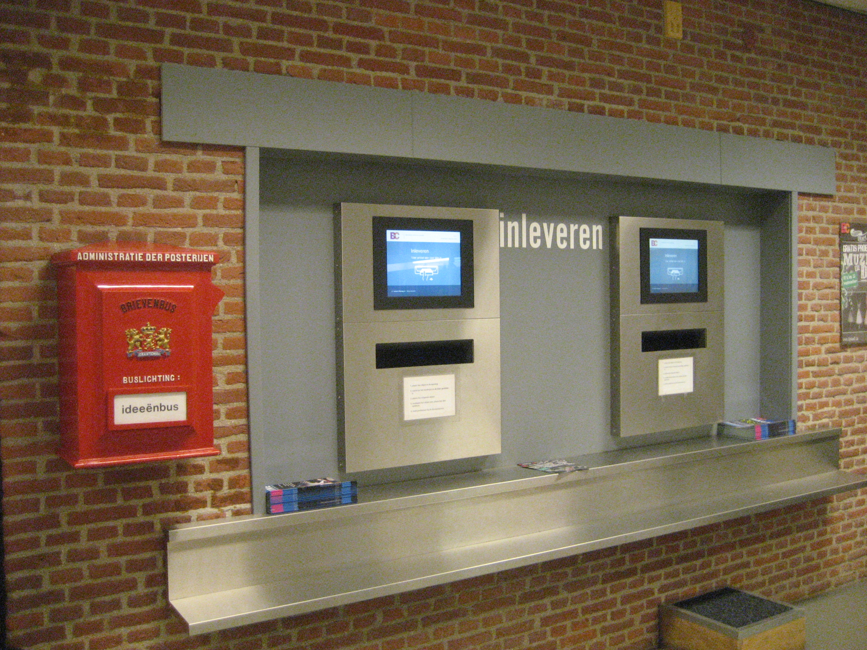 Return counter, public library in Leiden (The Netherlands)